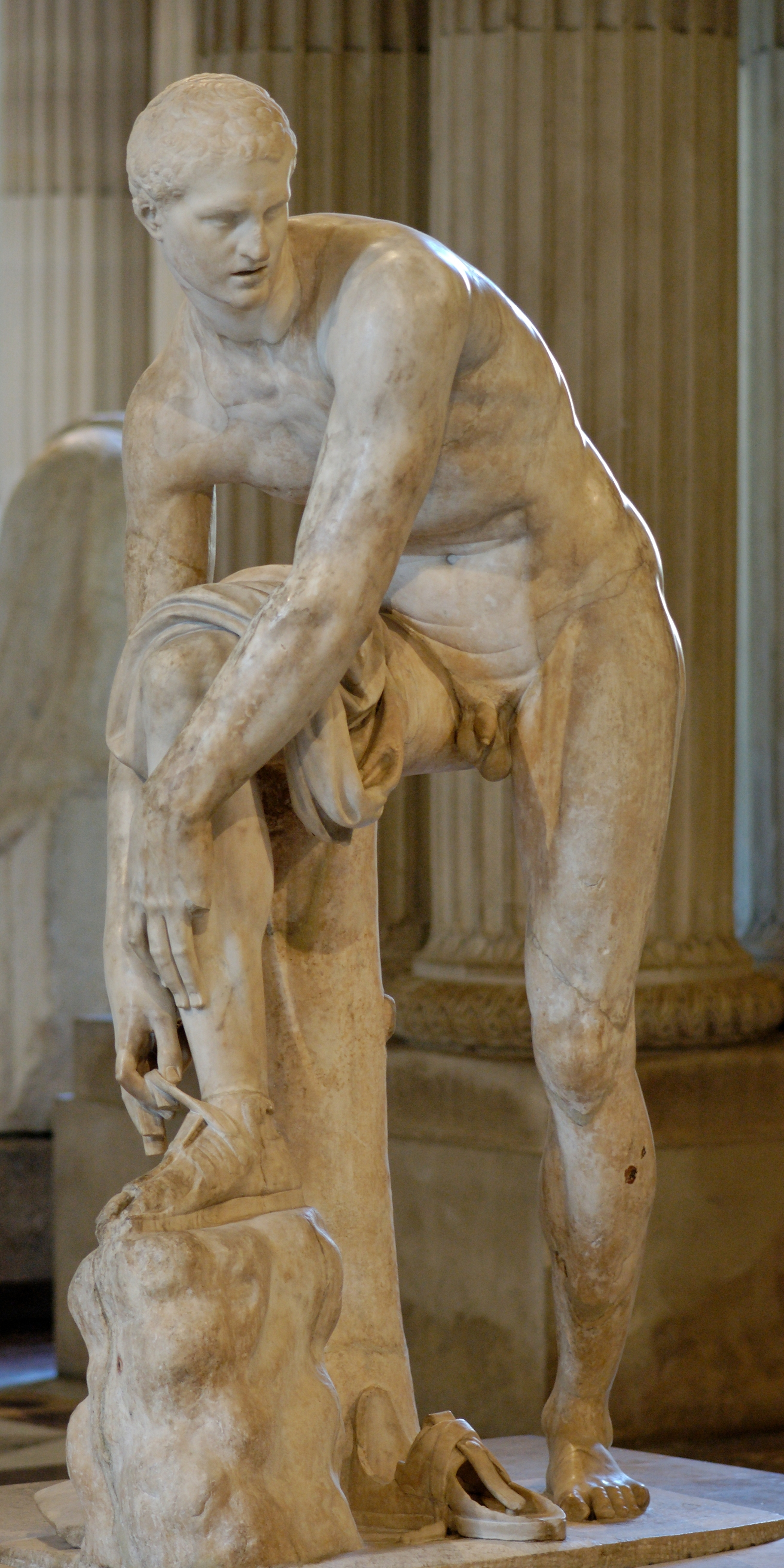 Youth untying his sandal, so-called “Sandalbinder Hermes”. Left arm and shoulder, right forearm and thigh, part of the chlamys and the plinth are modern restorations; the ploughshare at the base of the rock is a modern addition based on an errouneous identification with L. Quinctius Cincinnatus; the head is ancient but may be nonpertinent to the statue. Pentelic marble (body), Roman copy of the 2nd century CE after a Greek original of the late 4th century BC. From the Theater of Marcellus in Rome.